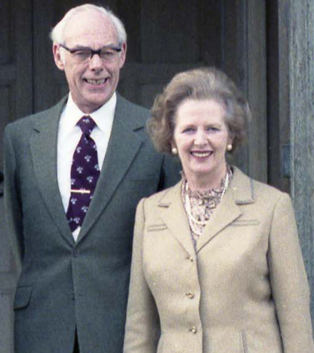 Denis and Margaret Thatcher in 1984.